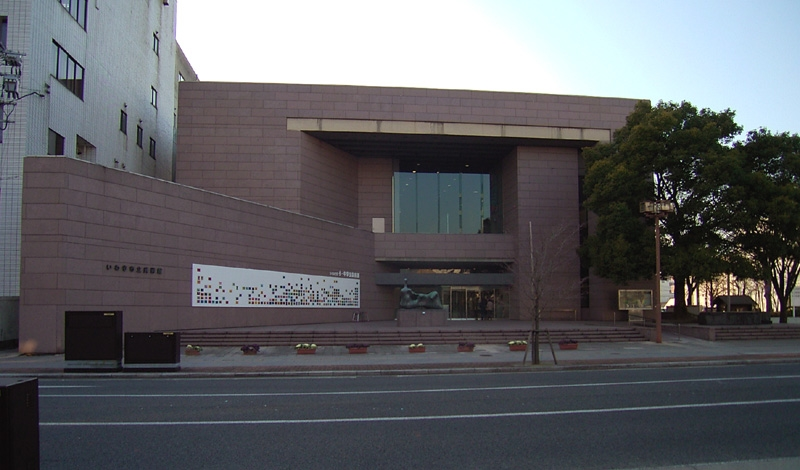 IwakiCity Art Museum いわき市立美術館